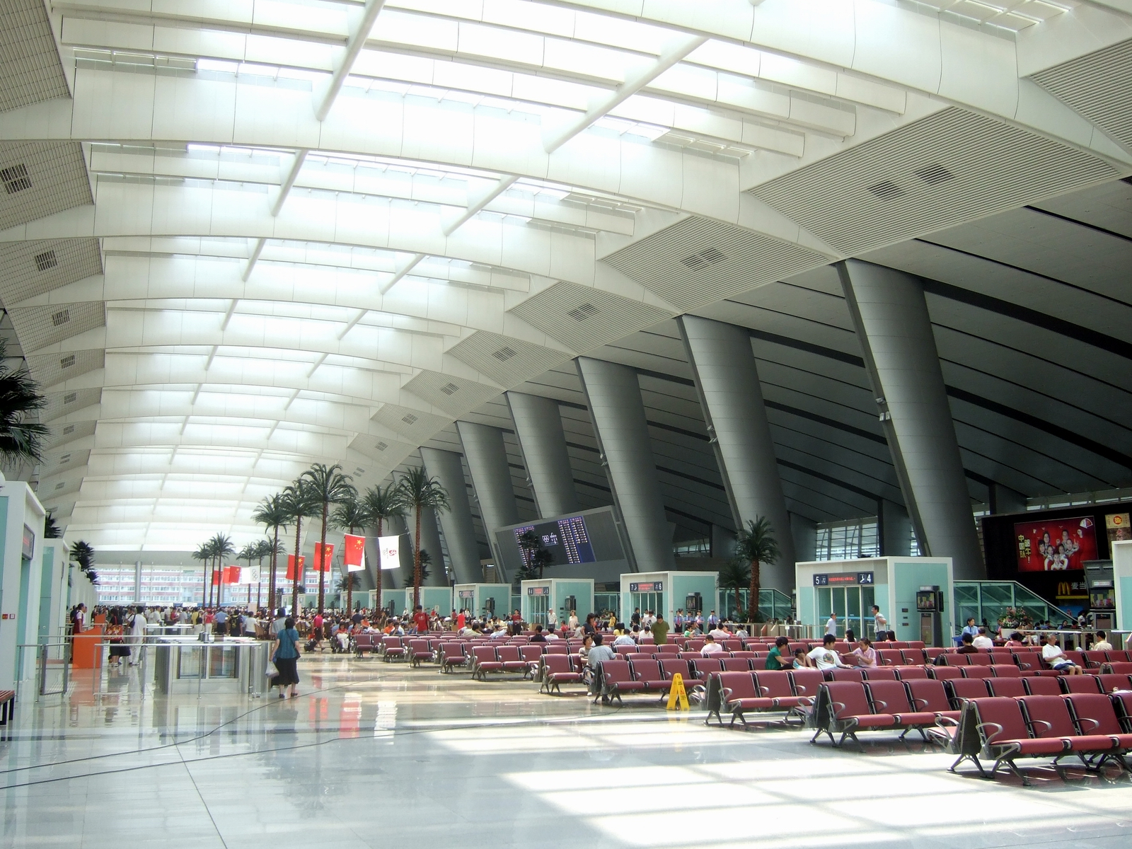 Beijing South Railway Station